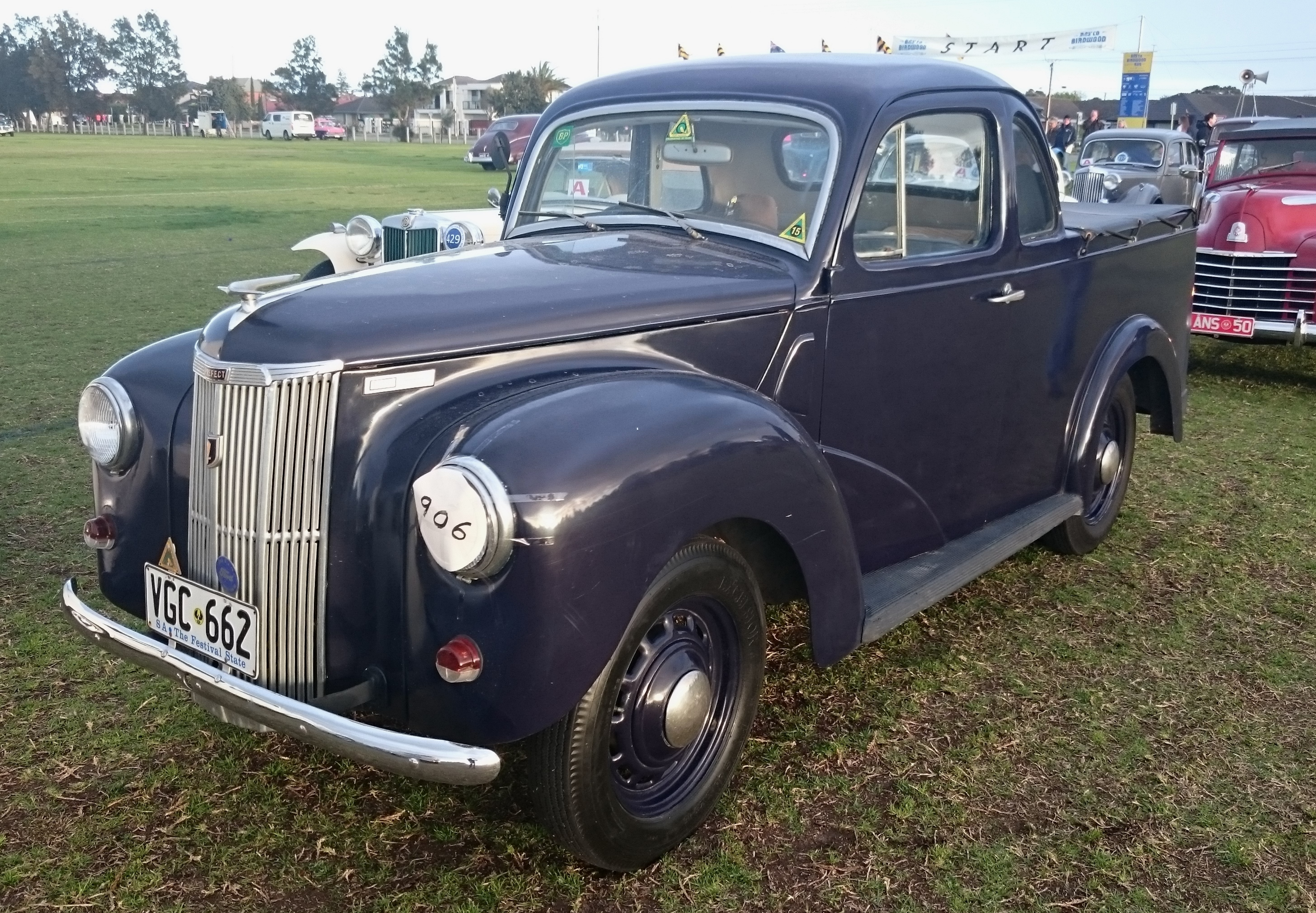 Australian built Ford Prefect Coupe Utility (A493A)